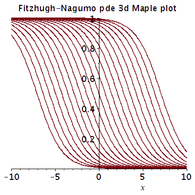 Fitzhugh-Nagumo pde Maple plot